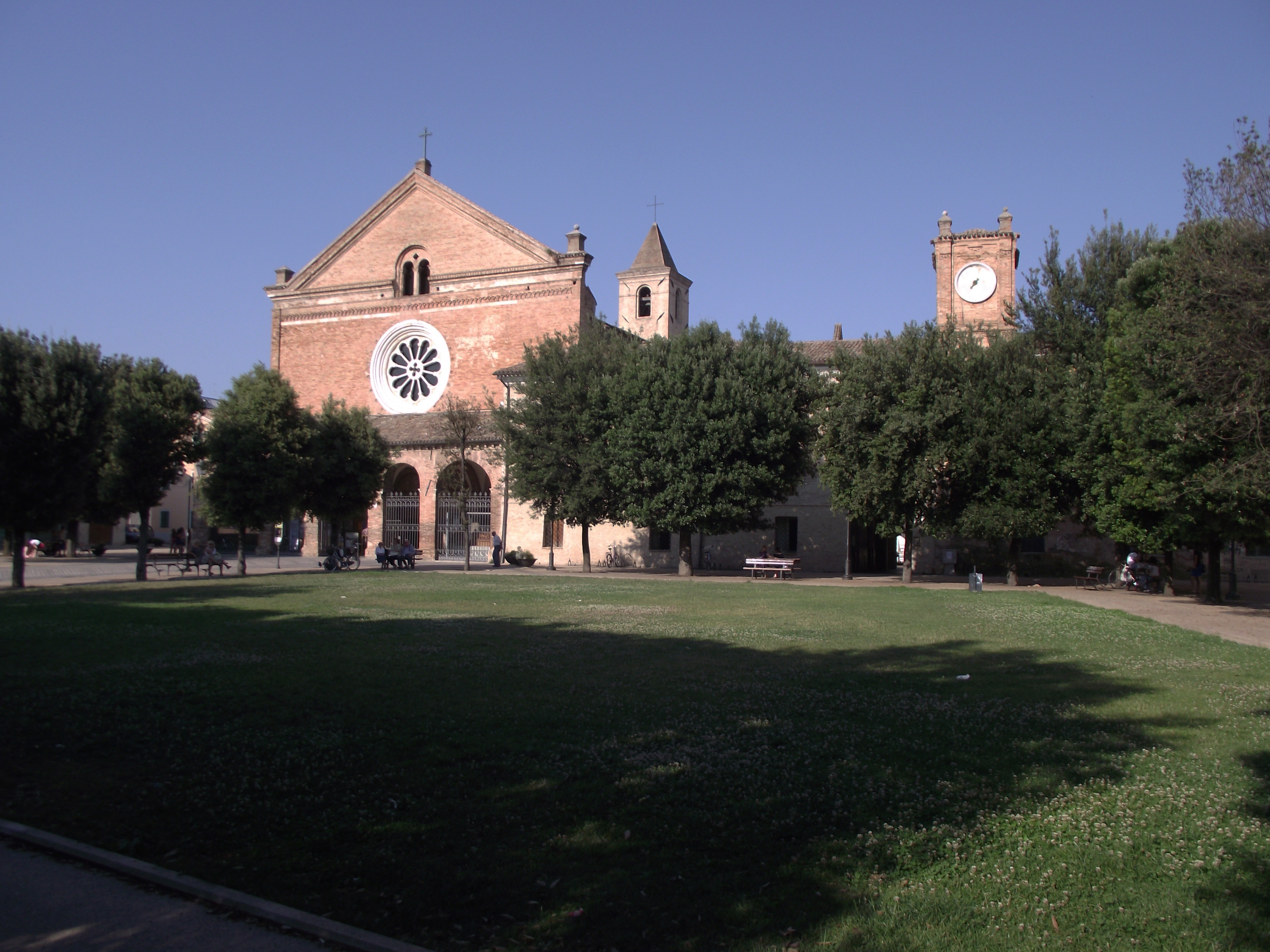 St. Mary's cistercian Abbey, XII century, Chiaravalle – Italy